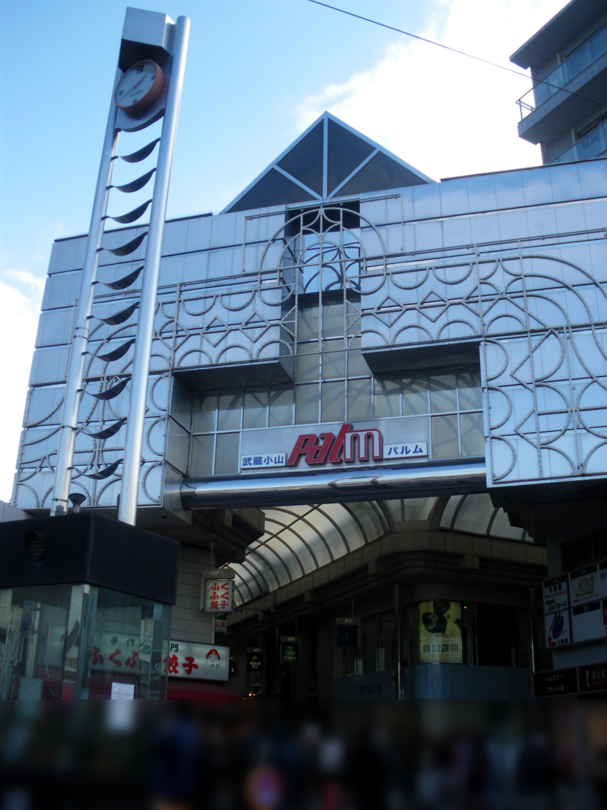 A photo of an entrance of Musashikoyama Shopping Street "PALM",Shinagawa-ku,Tokyo,Japan.